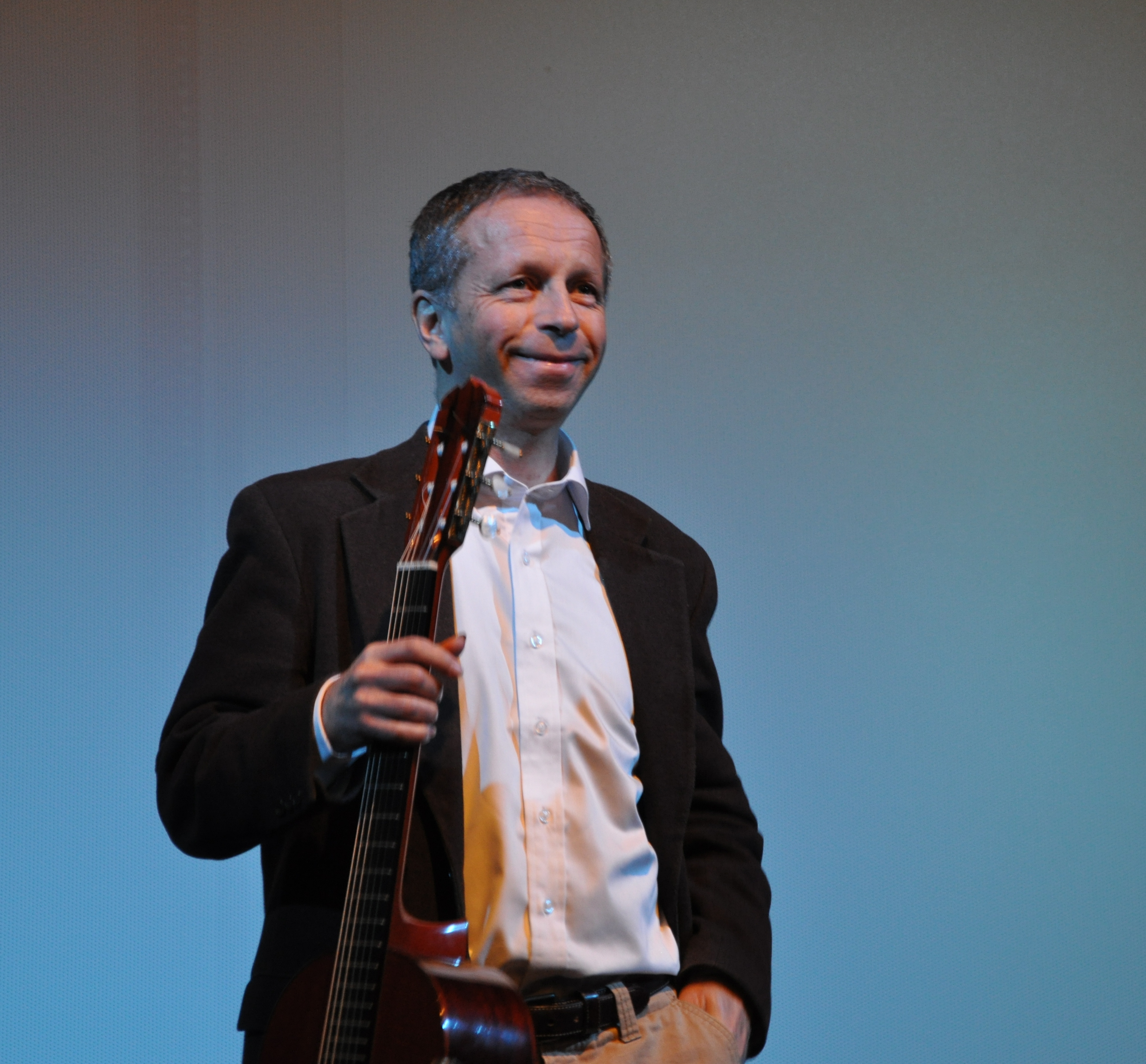 Göran Söllscher played guitar at Grand in Simrishamn, 15.03.2012.